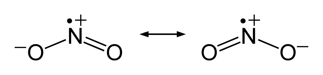 Canonical forms of nitrogen dioxide, NO2, resonating